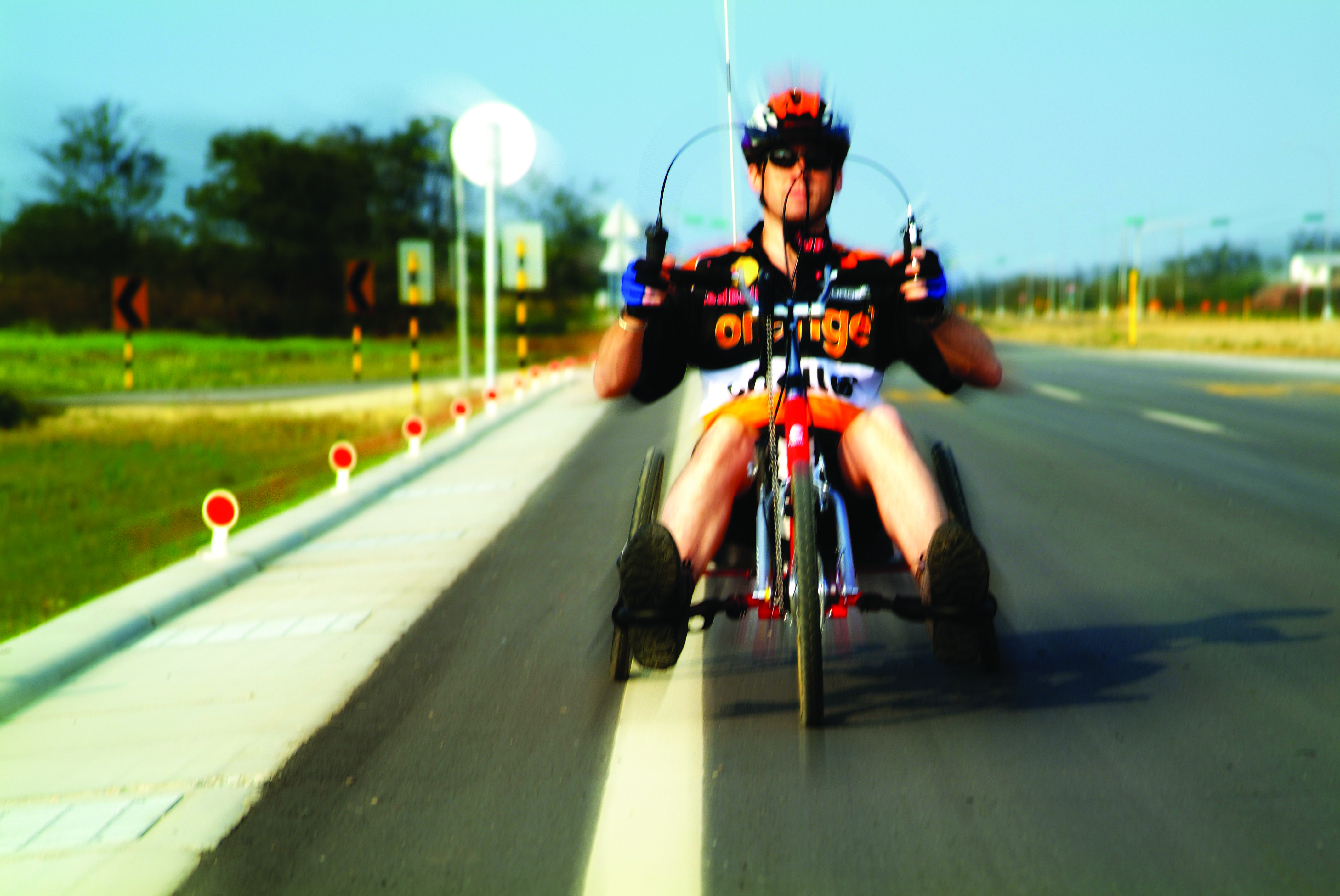 A hand driven bicycle for disabled